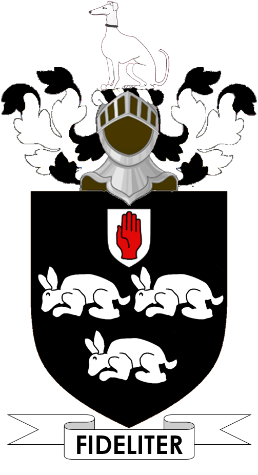 The armorial achievement of the Cunliffe baronets of Liverpool